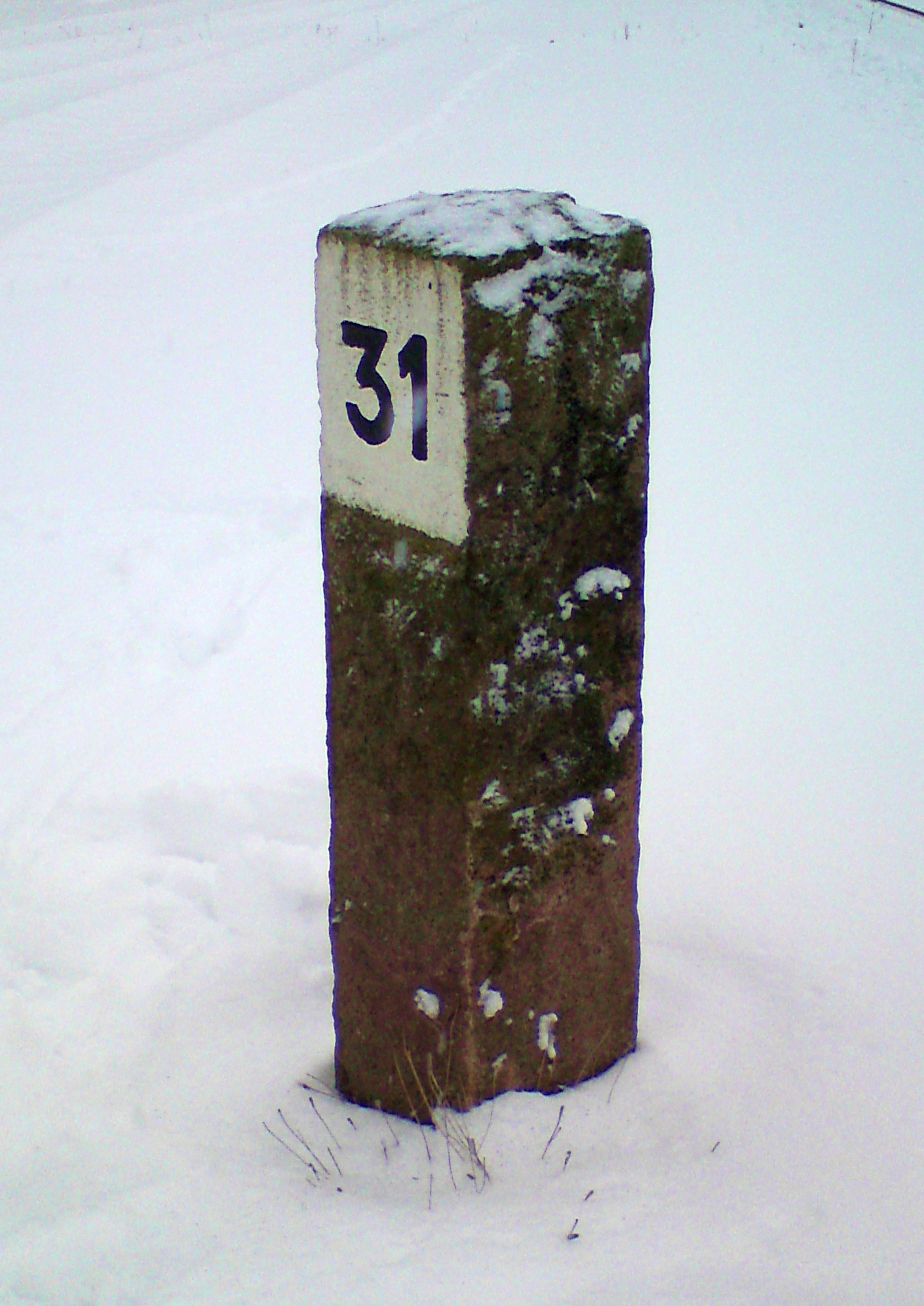 Kilometer stone at railways